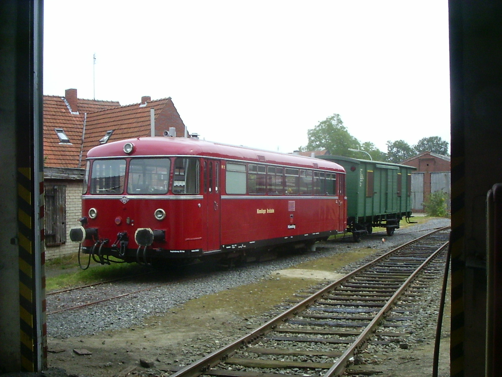 Werlte, Uerdinger railbus